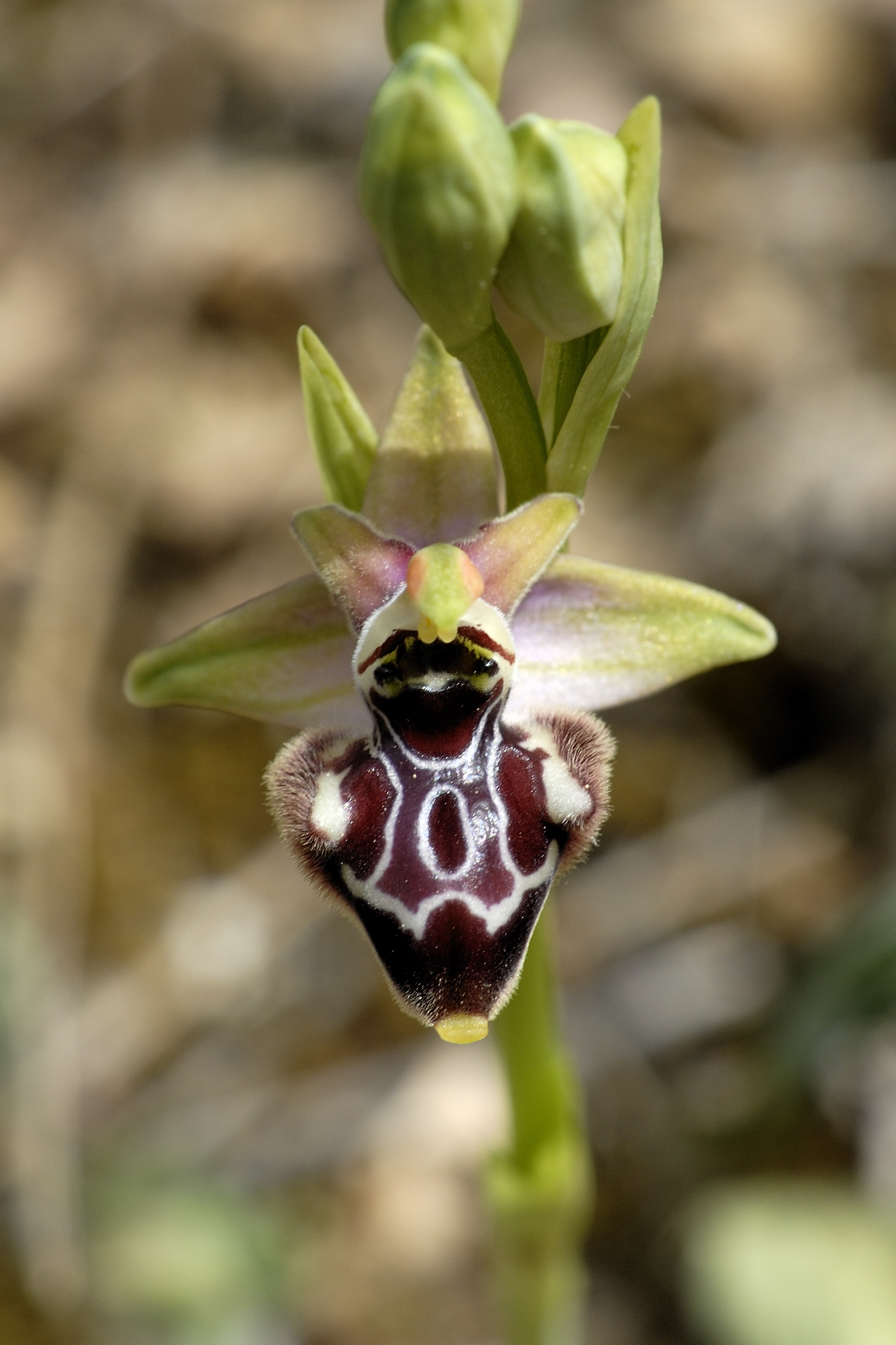 Nothospecies: Ophrys × gelana = (Ophrys incubacea × Ophrys oxyrrhynchos) - Monte Grosso